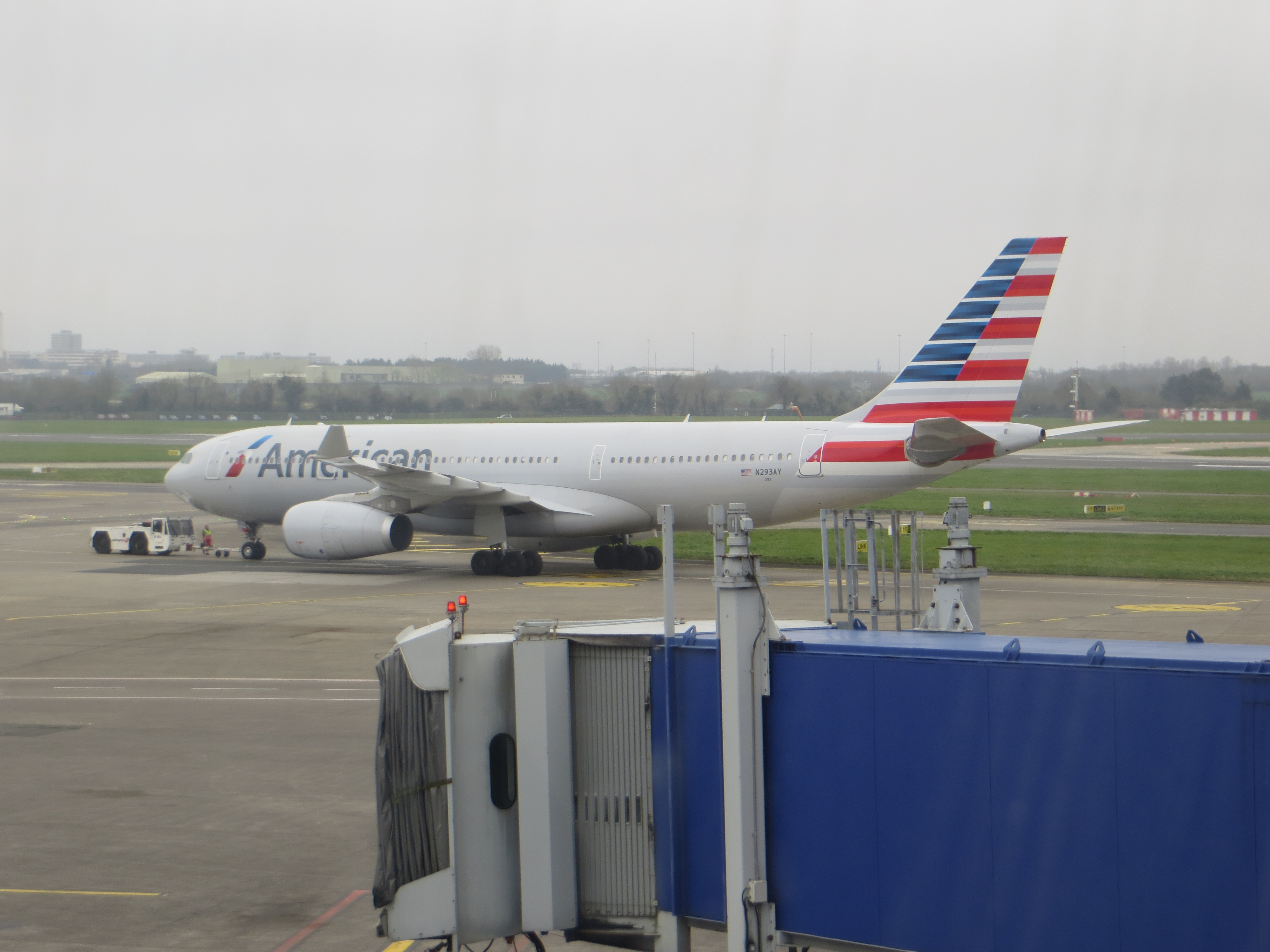 An American Airlines Airbus A330-200 awaiting departure from Dublin (DUB) to Philadelphia (PHL).